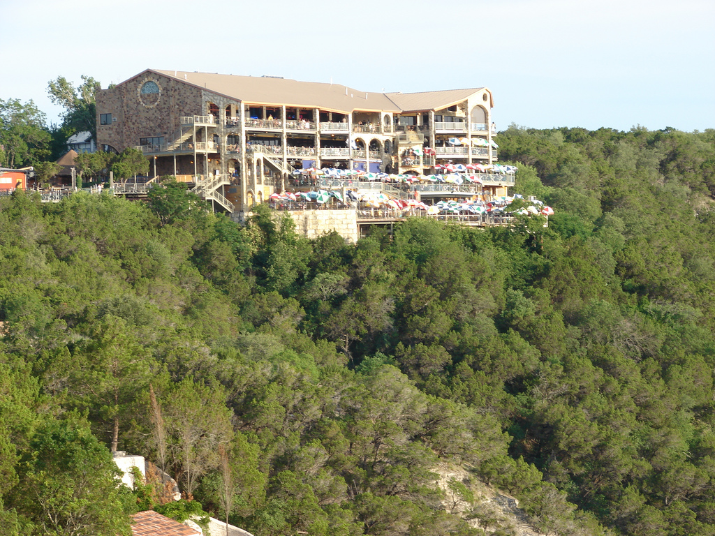 The Oasis Restaurant overlooking Lake Travis